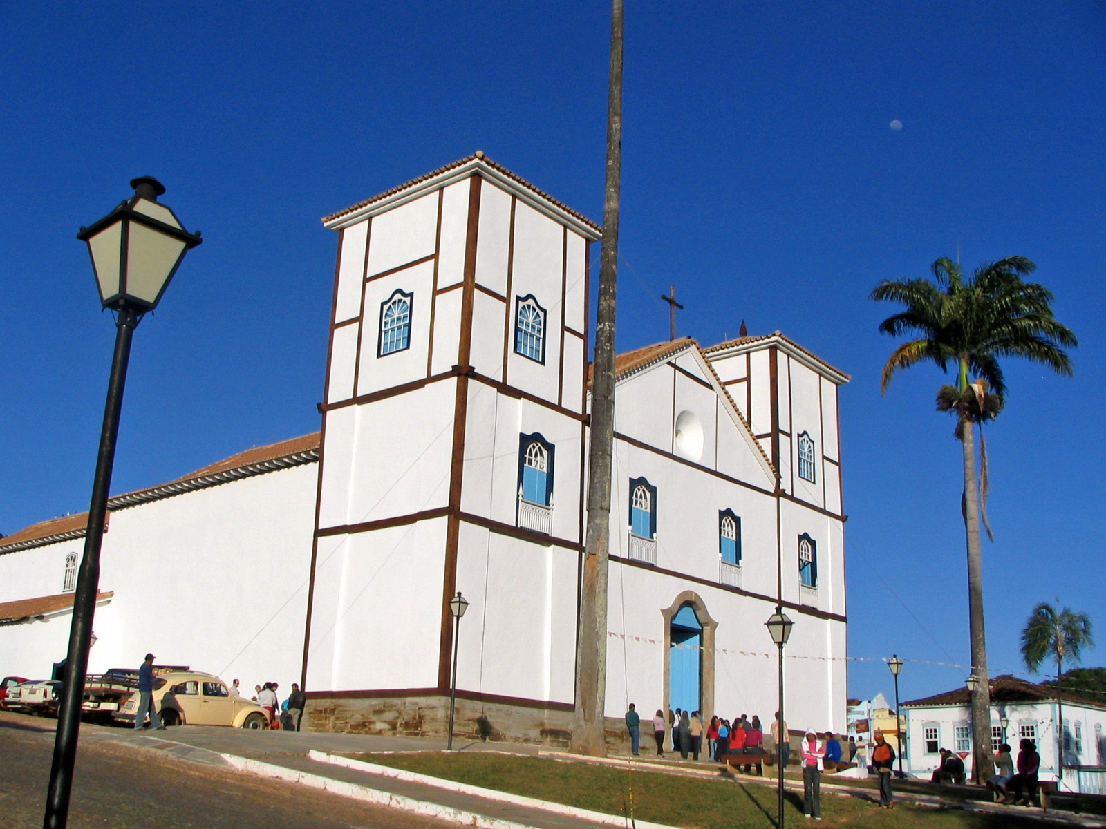 Church of Nossa Senhora do Rosário de Meia Ponte, built in 1728 and the oldest church in the city, with its altars sculpted in gold, Pirenópolis, Goiás, Brazil.